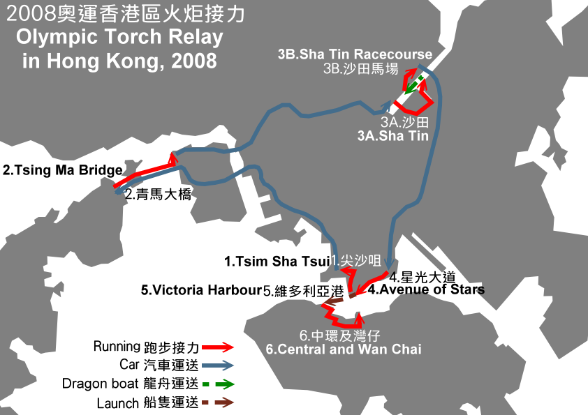 2008 Summer Olympic Torch Relay in Hong Kong